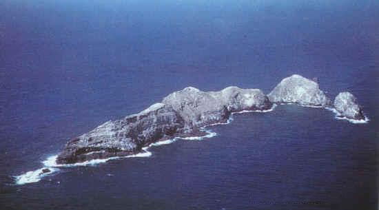 Aerial view of Necker Island, Northwestern Hawaiian Islands